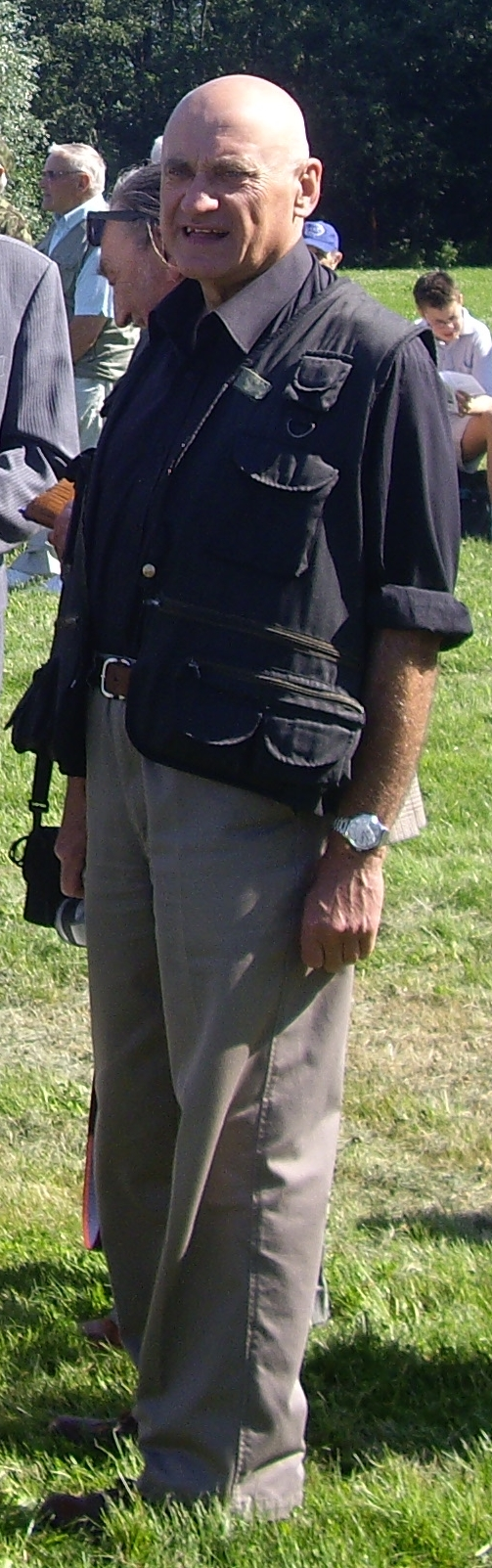 Einar Laigna at meeting of Estonian WWII veterans on Blue Hills, 2008.